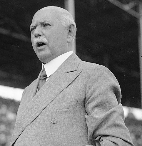 Cropped from image of Miss Toronto 1937 Billie Hallum and Mayor William D. Robbins on podium at CNE grandstand.